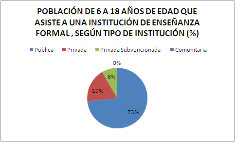 POBLACIÓN DE 6 A 18 AÑOS DE EDAD QUE ASISTE A UNA INSTITUCIÓN DE ENSEÑANZA